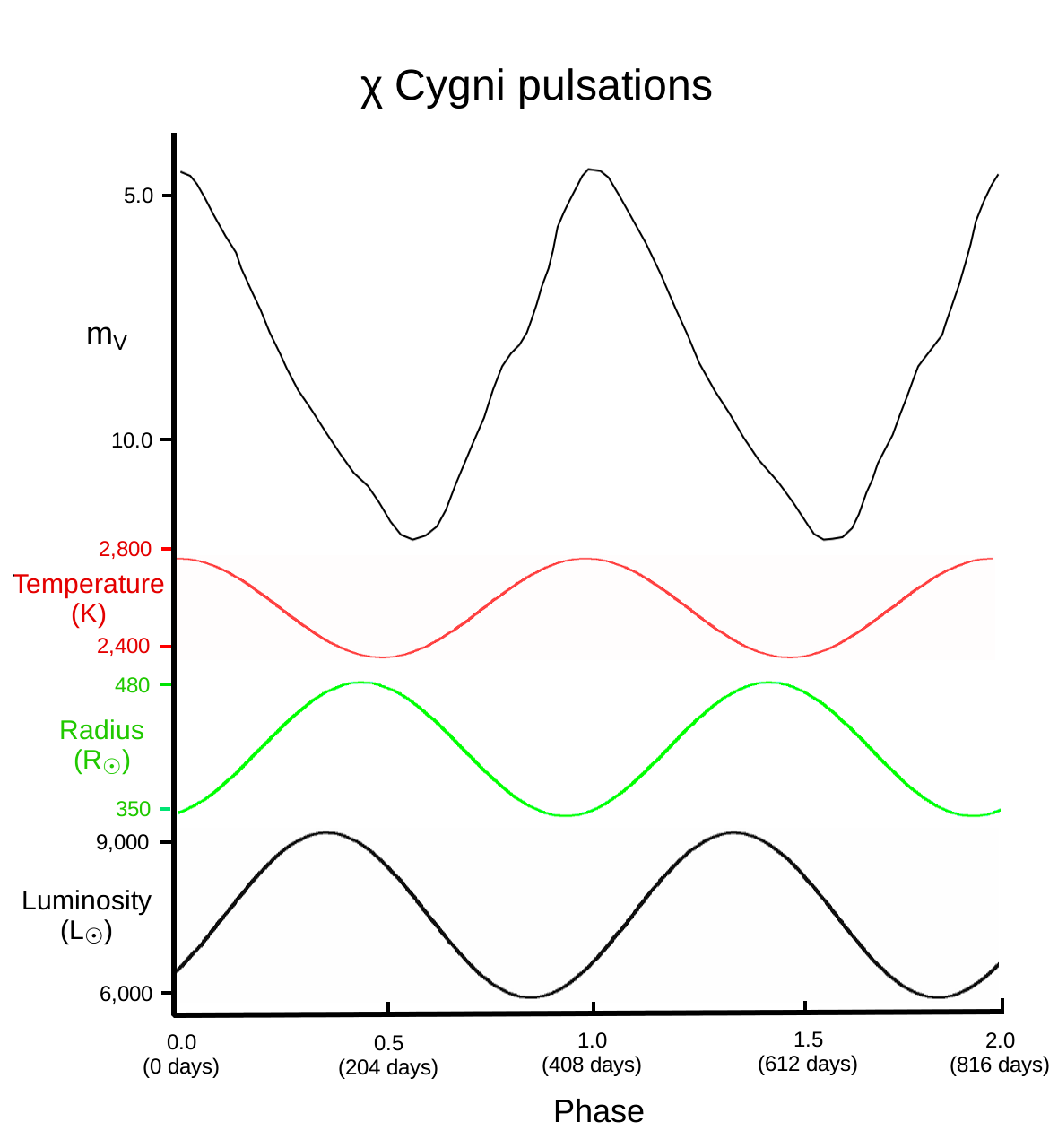 This diagram shows the variations of the visual magnitude, temperature, radius, and bolometric luminosity during the pulsation of the Mira variable star χ Cygni (based on the observations and models of Lacour et al 2009).